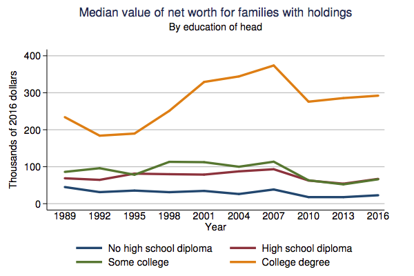 Median net worth of U.S. families by education of the head of household, 1989-2016